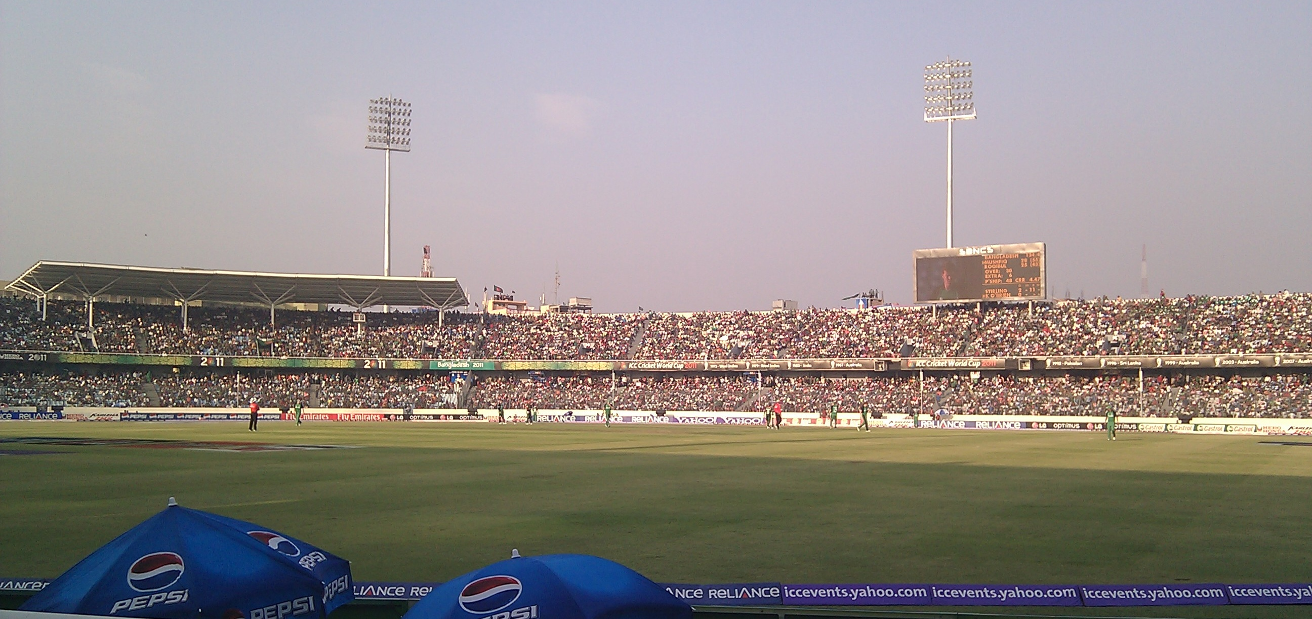 View from our seats at the Bangladesh v. Ireland match during the Cricket World Cup.